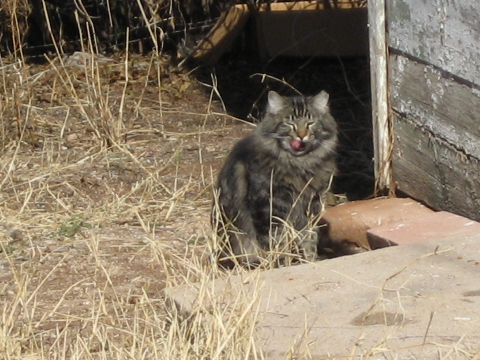 I took this picture myself on January 23, 2007. It is also available here